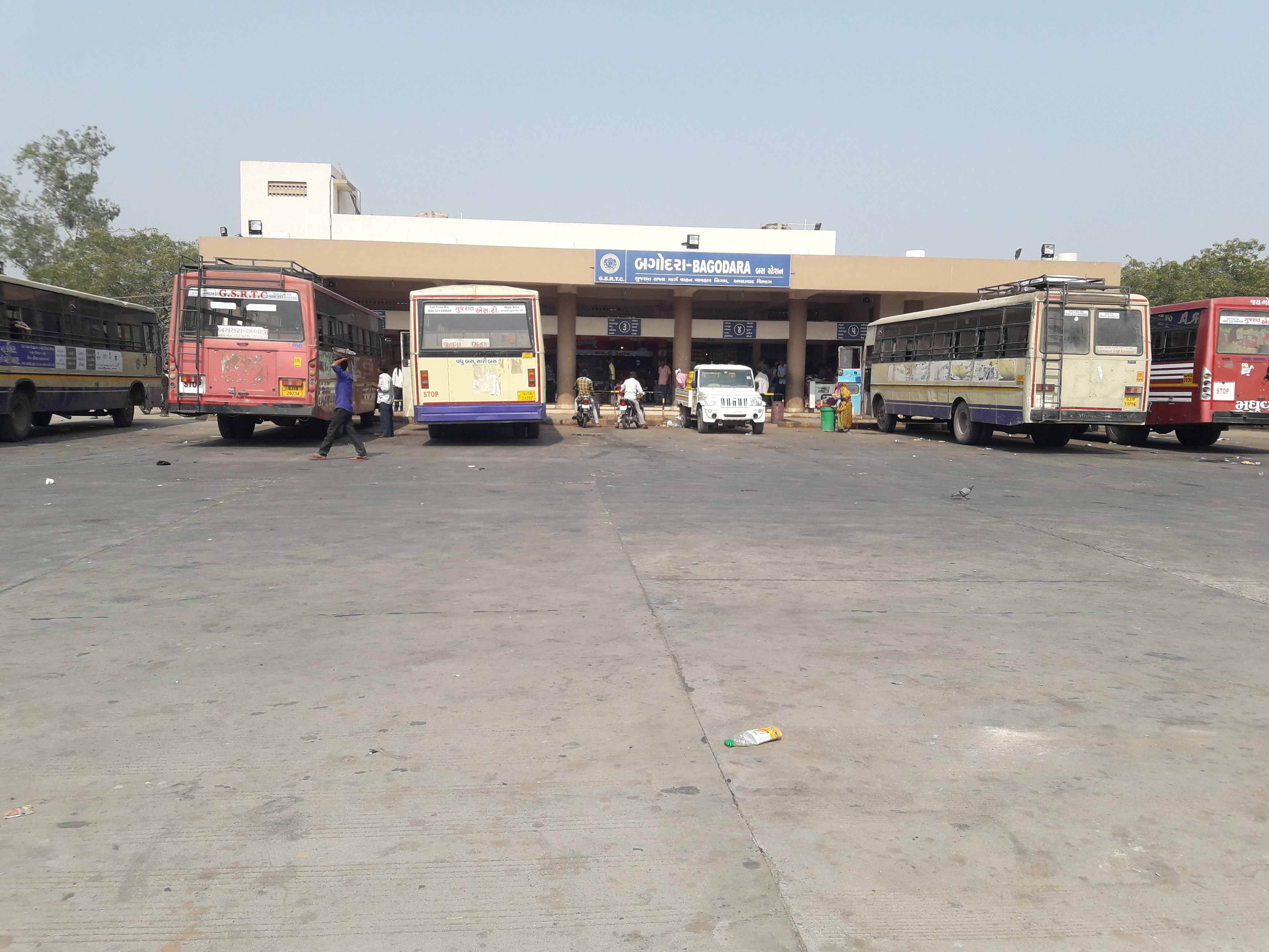 GSRTC bus depot in Bagodara, Bavla Taluka, Ahmedabad district, Gujarat.